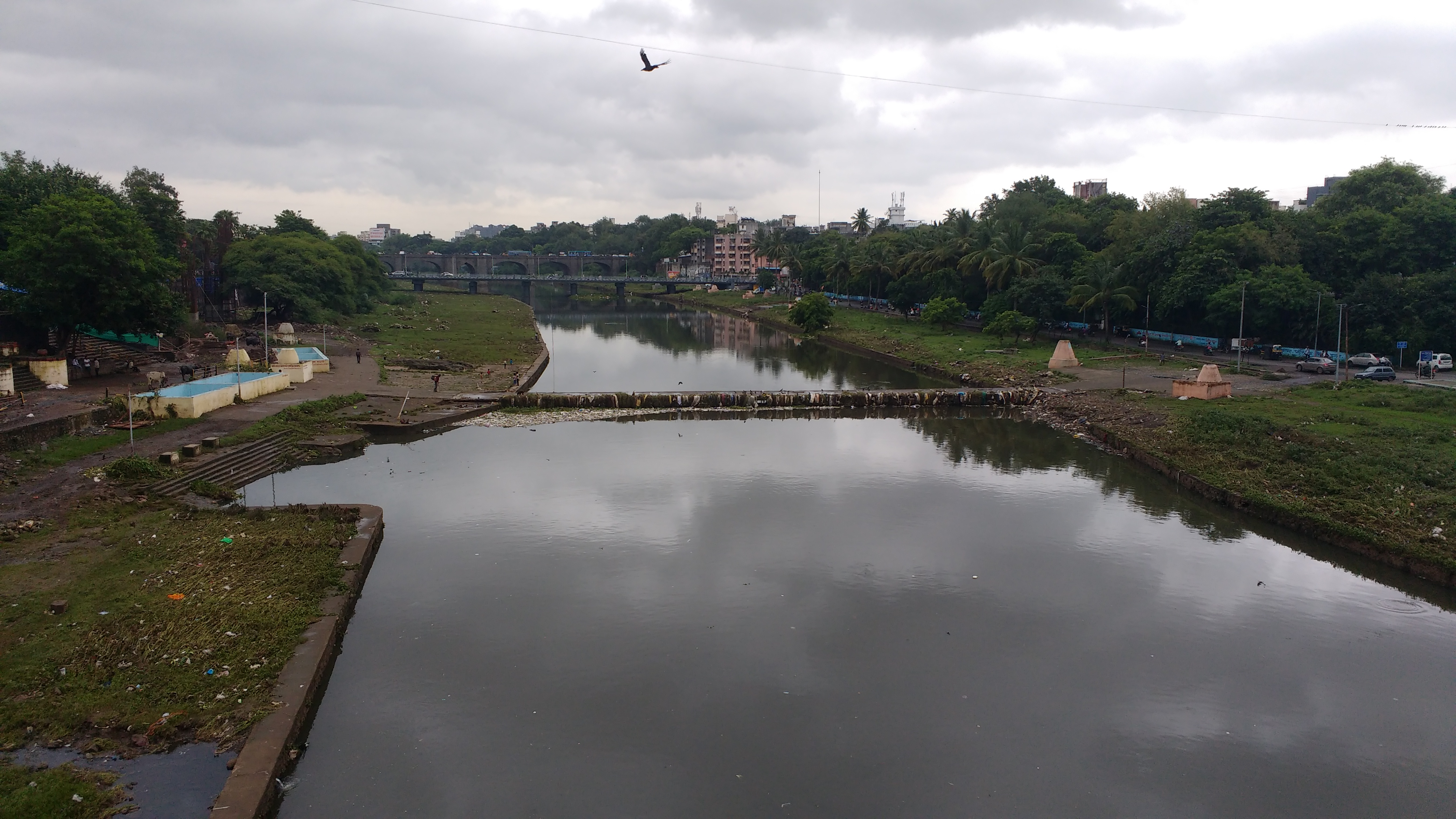 After the water is released from the dams, all the debris in the river gets entangled on the low lying bridges or causeways.